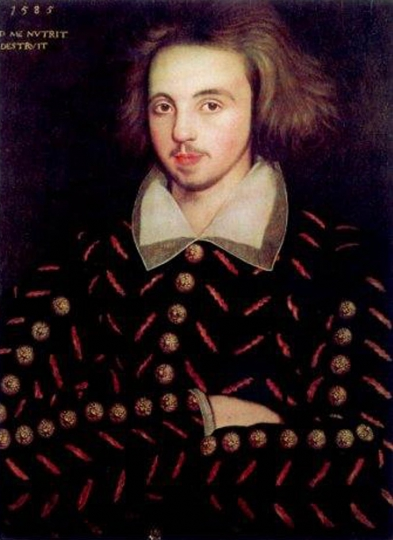 A portrait, supposedly of Christopher Marlowe. There is in fact no evidence that the anonymous sitter is Marlowe, but the clues do point in that direction. Marlowe was 21 years old in 1585, when the painting was made. He was also the only 21-year old student at Corpus Christi, where the painting was later found.[1]